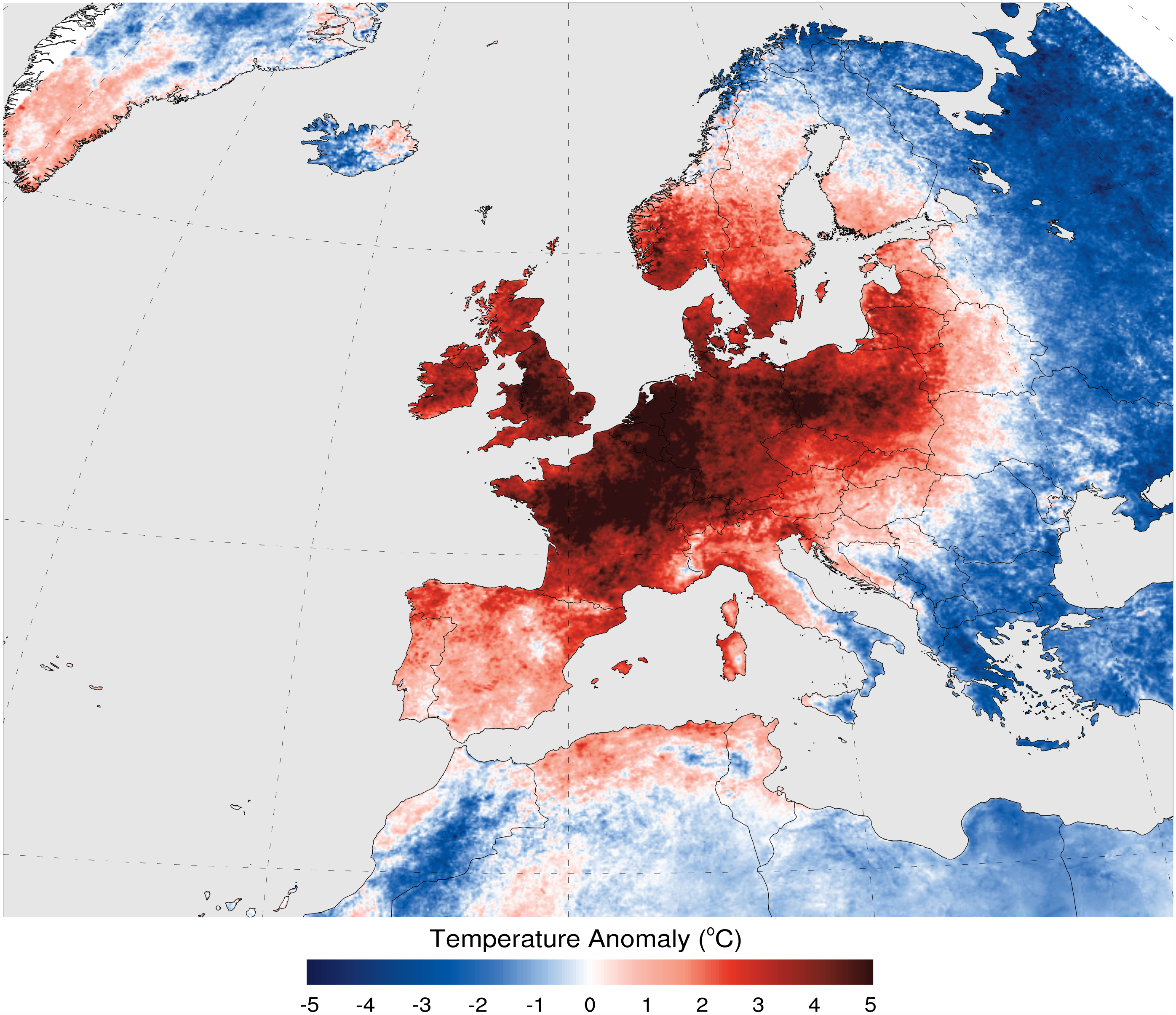 July 2006 land surface temperature anomaly wrt 2000-2012 derived from Modis Terra data. Data